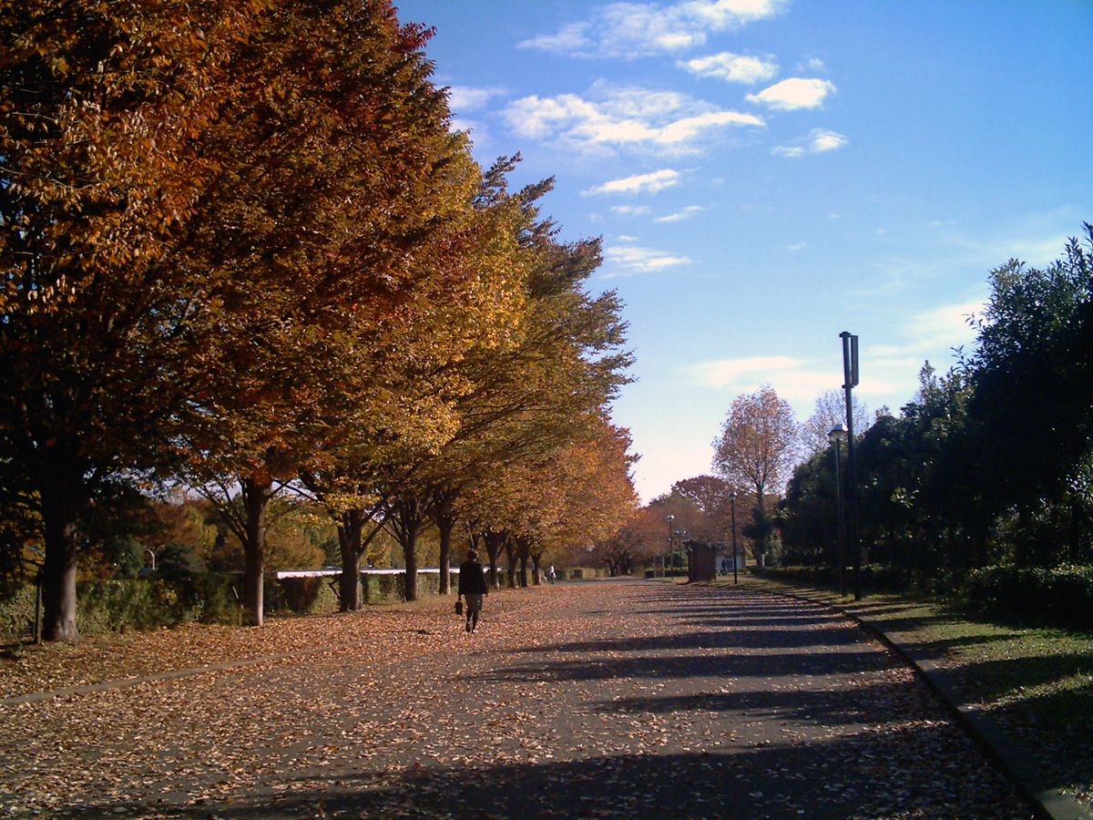 Autumn Zelkova trees in Koku-koen Park, Tokorozawa, Japan.